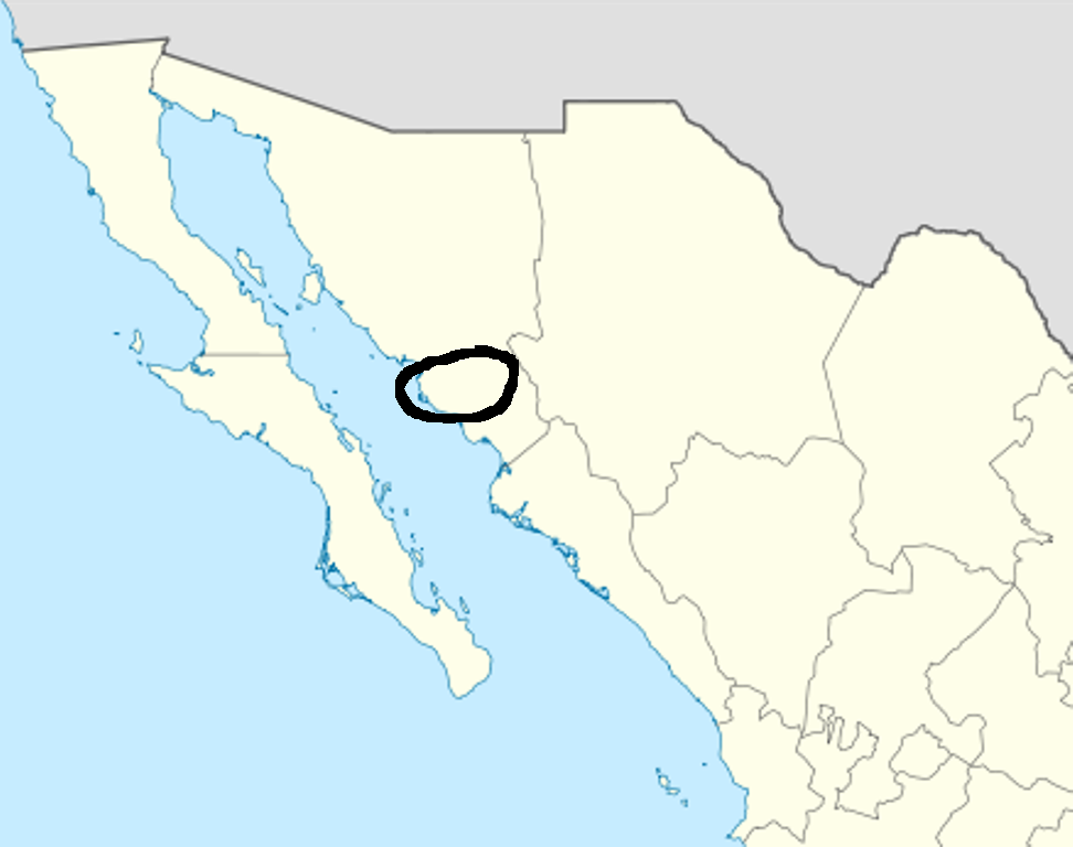 A map showing the historic location of the Yaqui Indians of Sonora, Mexico.